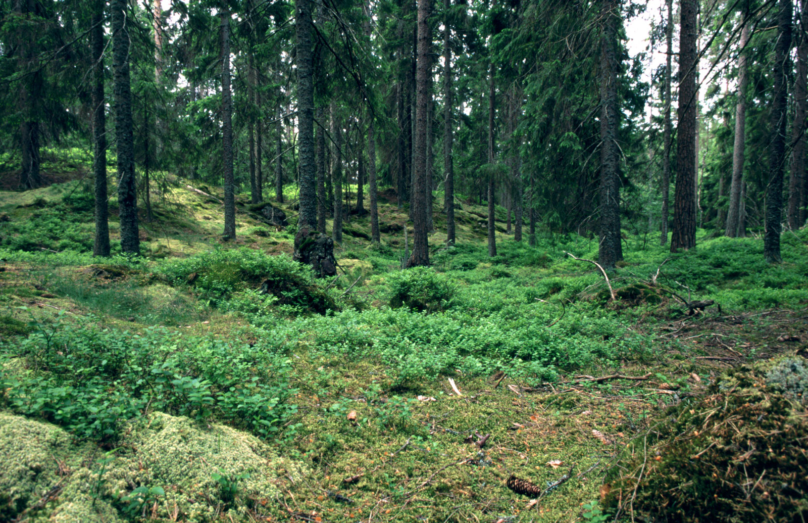 Swedish Spruce Forest, Near Ånnaboda, Sweden, May 2004